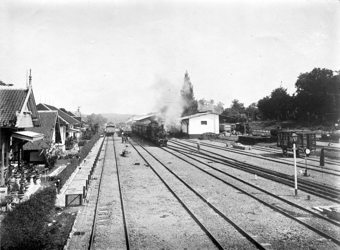 Railway-emplacement Goendih of the N.I.S. (Dutch-Indies Railway Company), Central-Java.